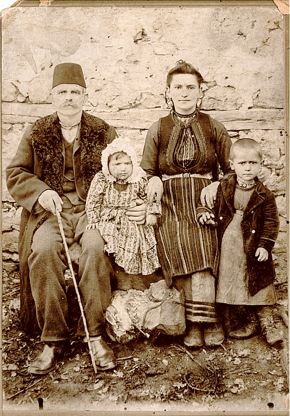 Smurdesh - Repatsev family. First decade of 20th c.